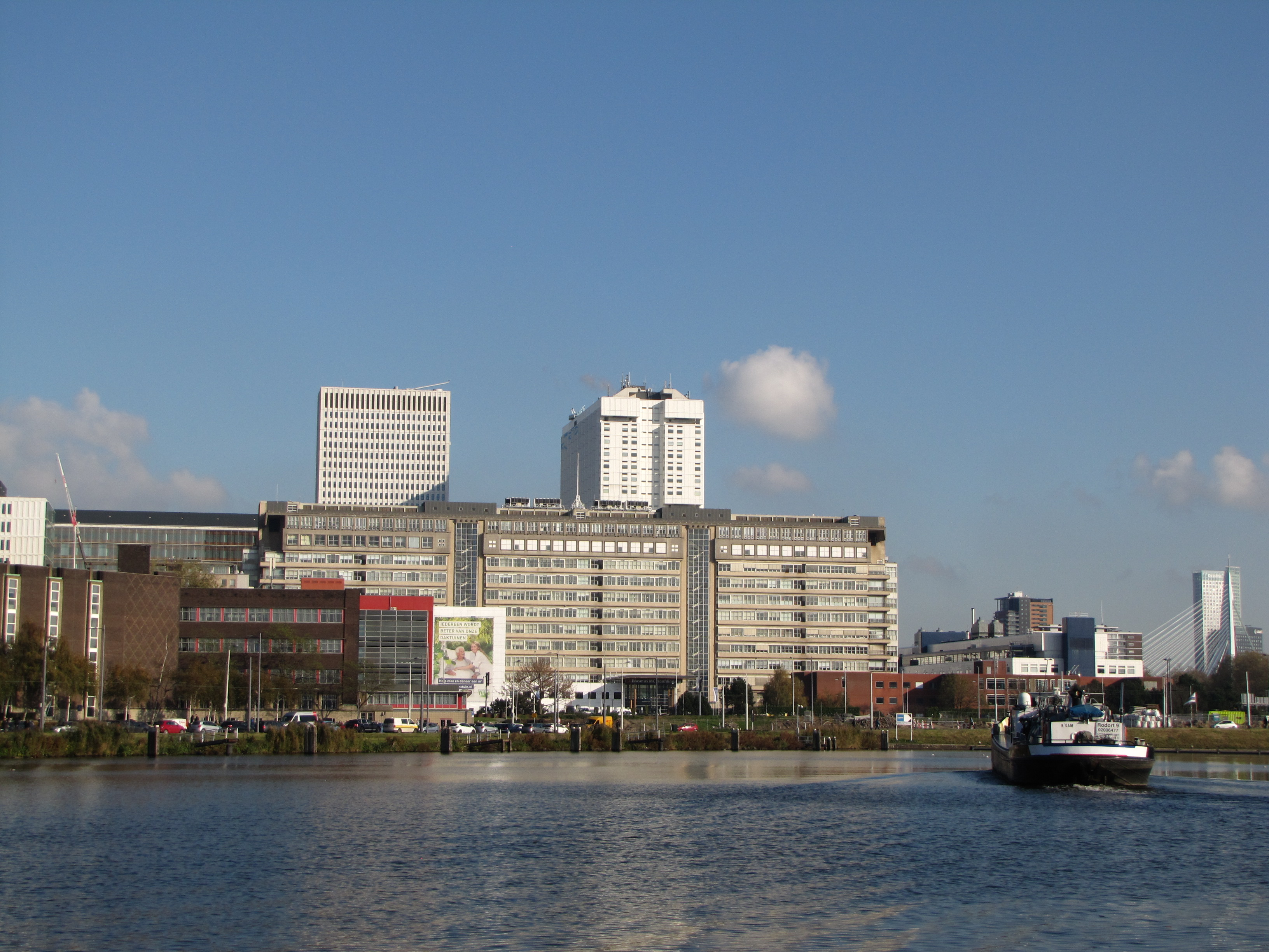 From Coolhaven, the Erasmus Medical Center